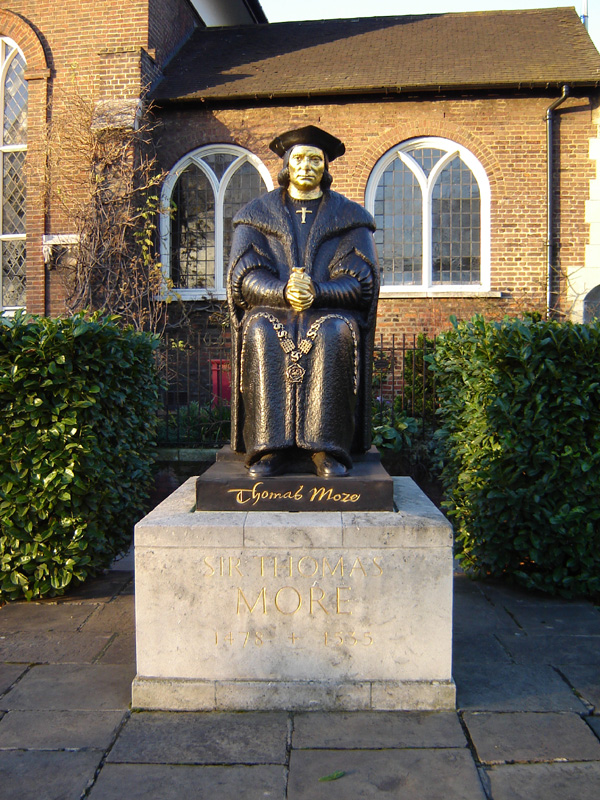 Statue of Thomas More, Cheyne Walk, Chelsea, London. Chelsea Old Church in background. 21 January 2006. Photographer: Fin Fahey.